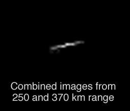 Image of the Mars Express spacecraft in orbit around Mars. The image was taken by Mars Global Surveyor spacecraft on April 20, 2005 from a distance of 250 km.